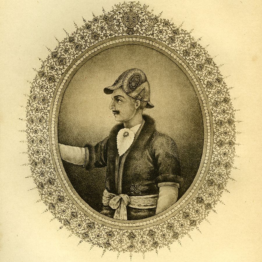 Portrait of Bhimsen Thapa from William Wilson Hunter's Life of Brian Houghton Hodgson: British resident at court of Nepal